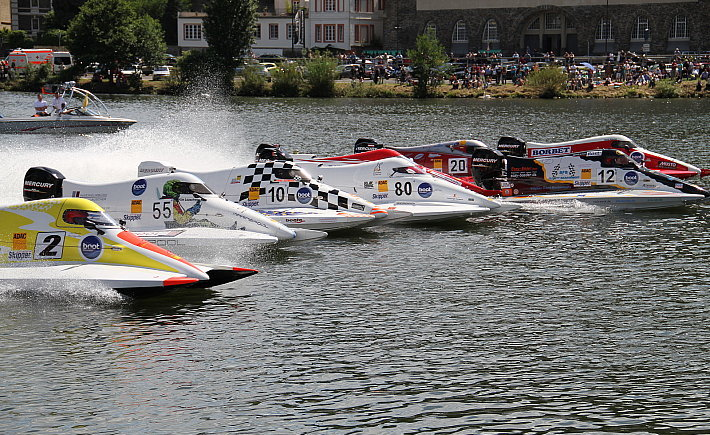 Traben-Trarbach ADAC Masters F-4s start